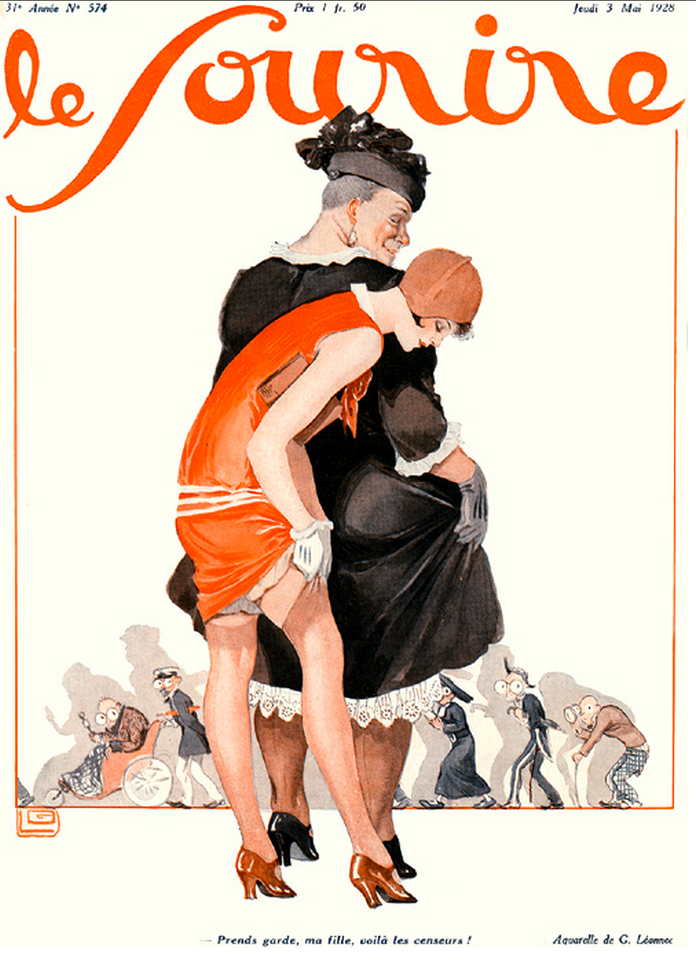 Cover of Le Sourire, issue May 3, 1928, designed by Georges Léonnec. — Prends garde, ma fille, voilà les censeurs !